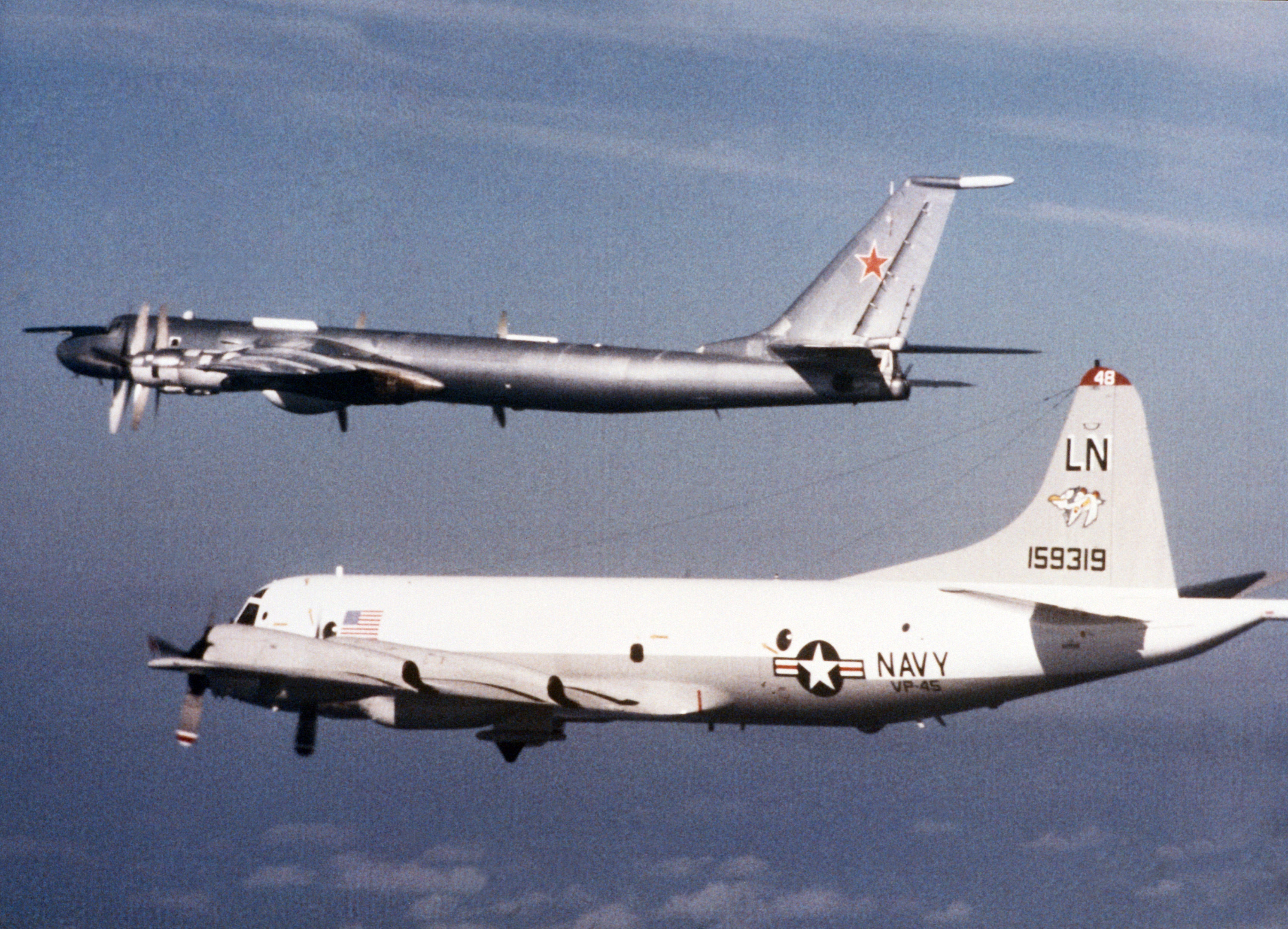 A Soviet Tu-142M aircraft (NATO code "Bear F Mod 3") being escorted by a U.S. Navy Lockheed P-3C-155-LO Orion (BuNo 159319) of patrol squadron VP-45 Pelicans, on 6 March 1986.